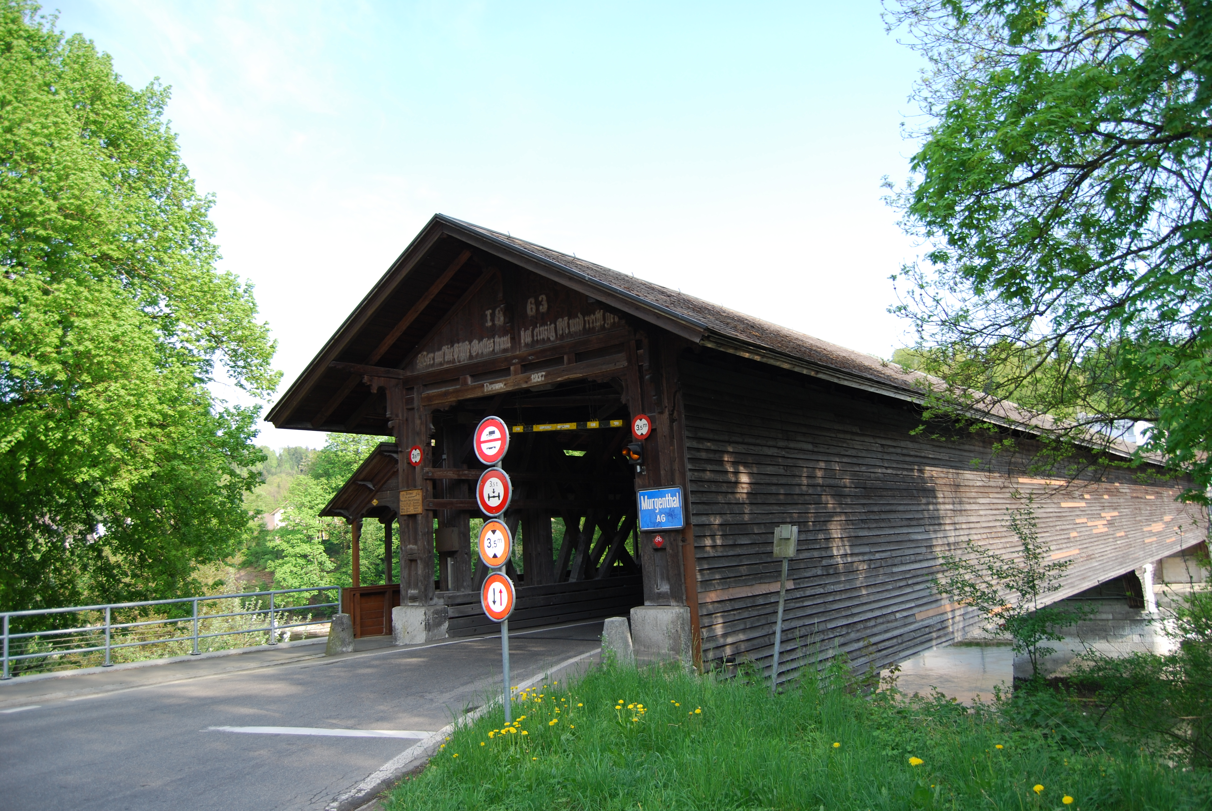 Wooden bridge over Aar from Murgenthal, canton of Aargovia, to Fulenbach, canton of Solothurn, Switzerland